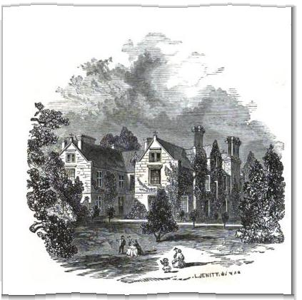 A hall near Kings Newton in Derbyshire.